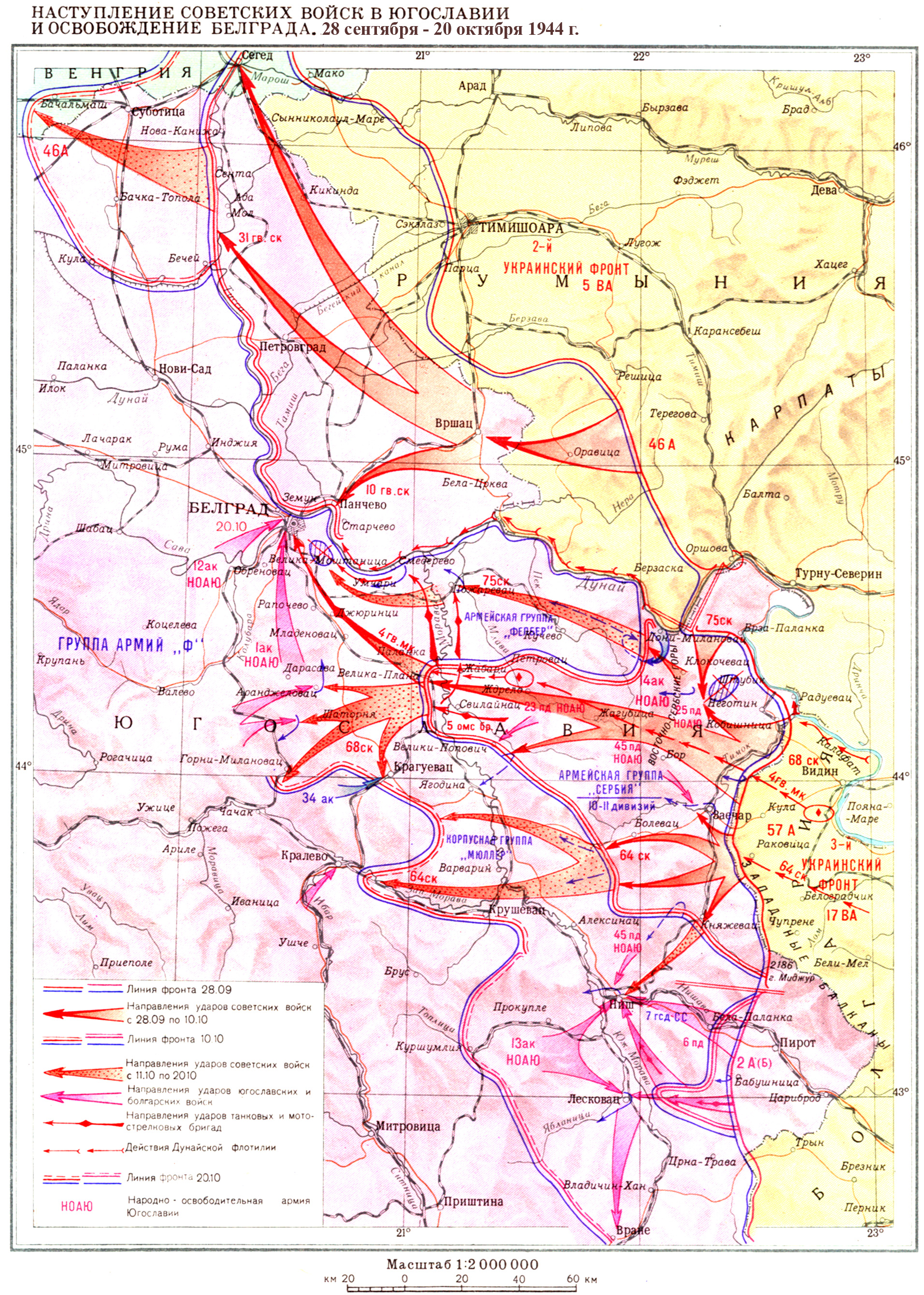 Belgrade offensive